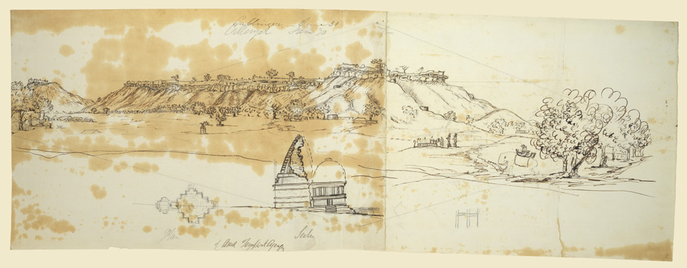 Panorama of the Fort,Kalinjar.Temple in foreground with sketch of plan